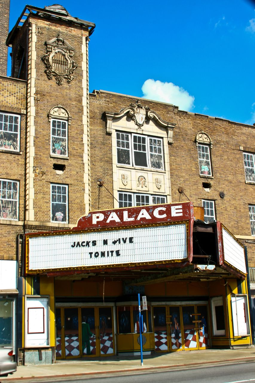 Jackson Five? Tonight??? Don't think Michael Jackson will make it.